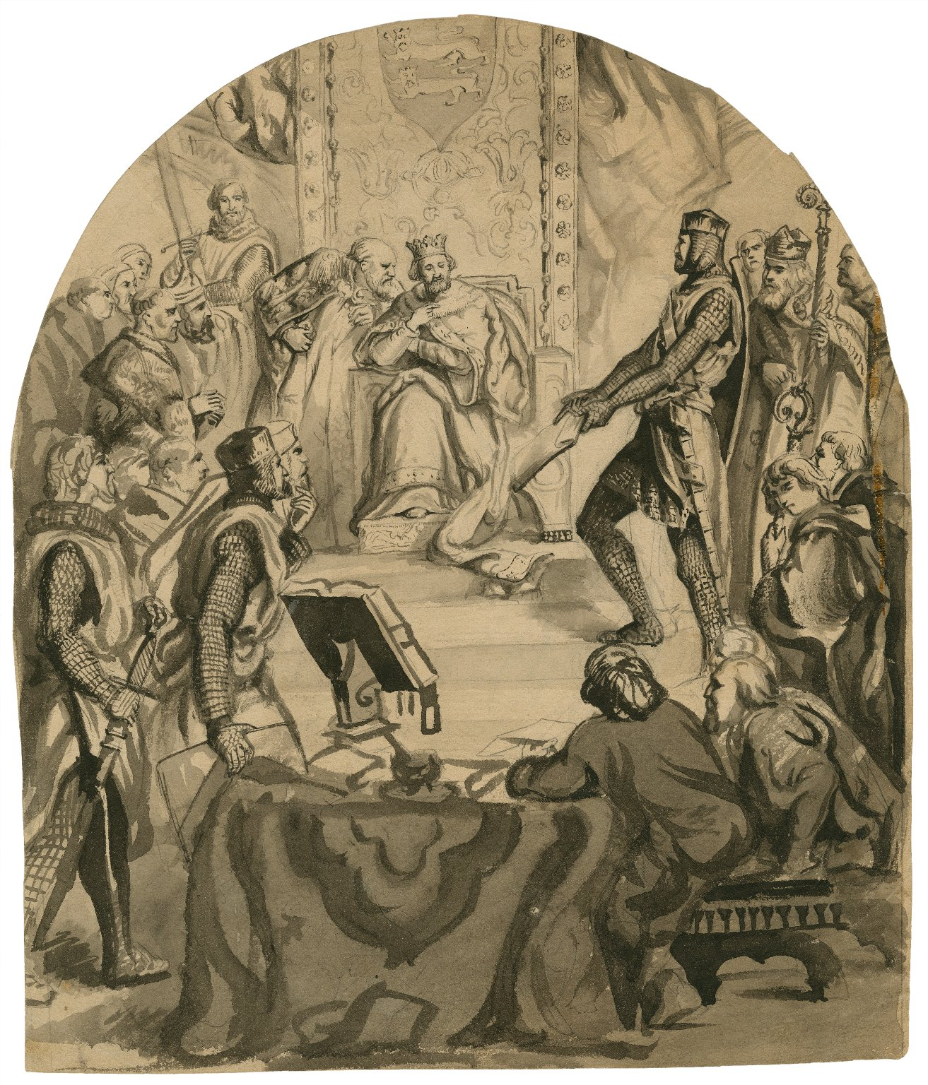 A 19th century drawing by Thomas Nast of a scene from King John